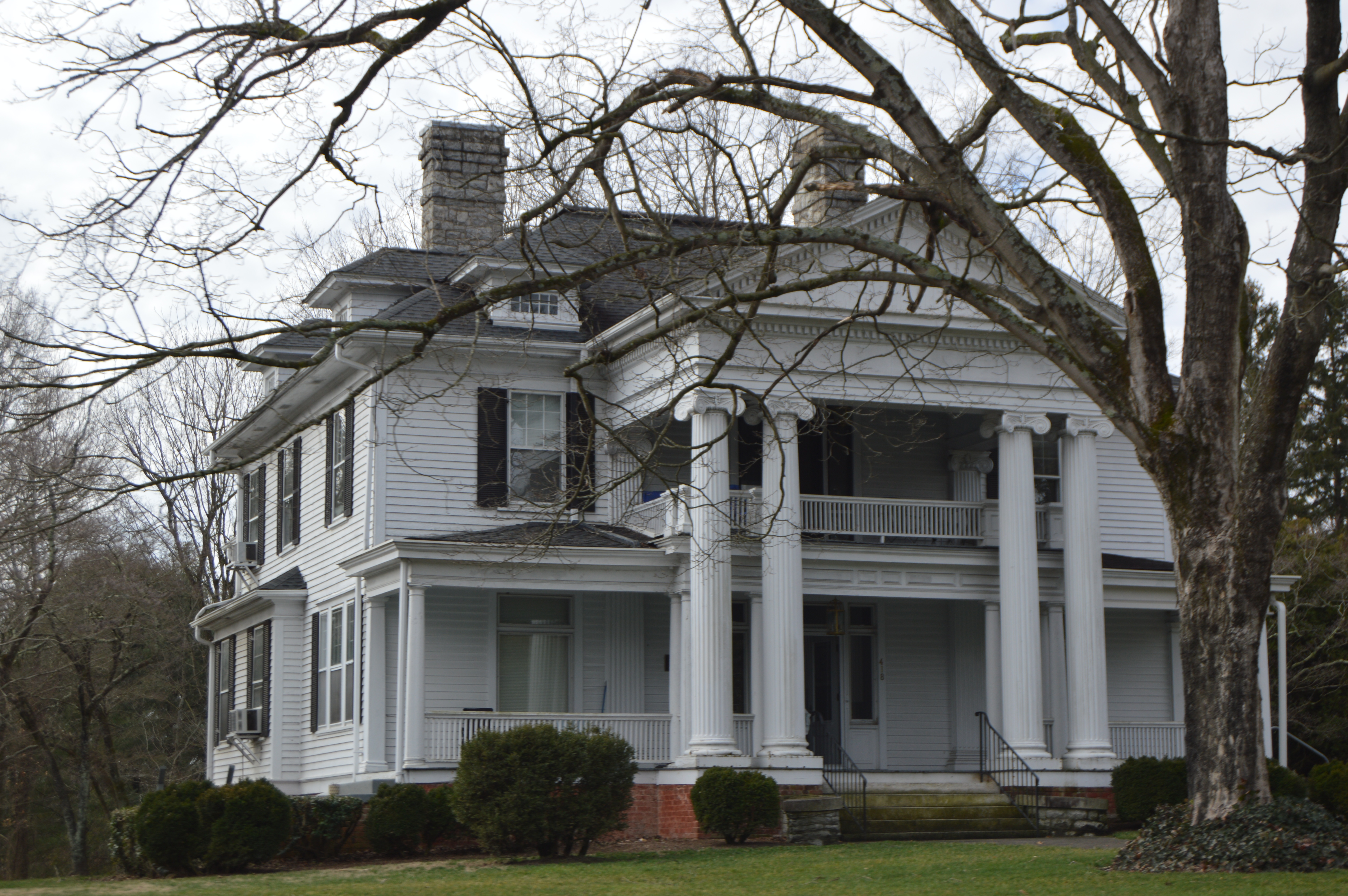 Front and southeastern side of the W. F. Carter House, located at 418 S. Main Street in Mount Airy, North Carolina, United States. Built in 1908, it is listed on the National Register of Historic Places.